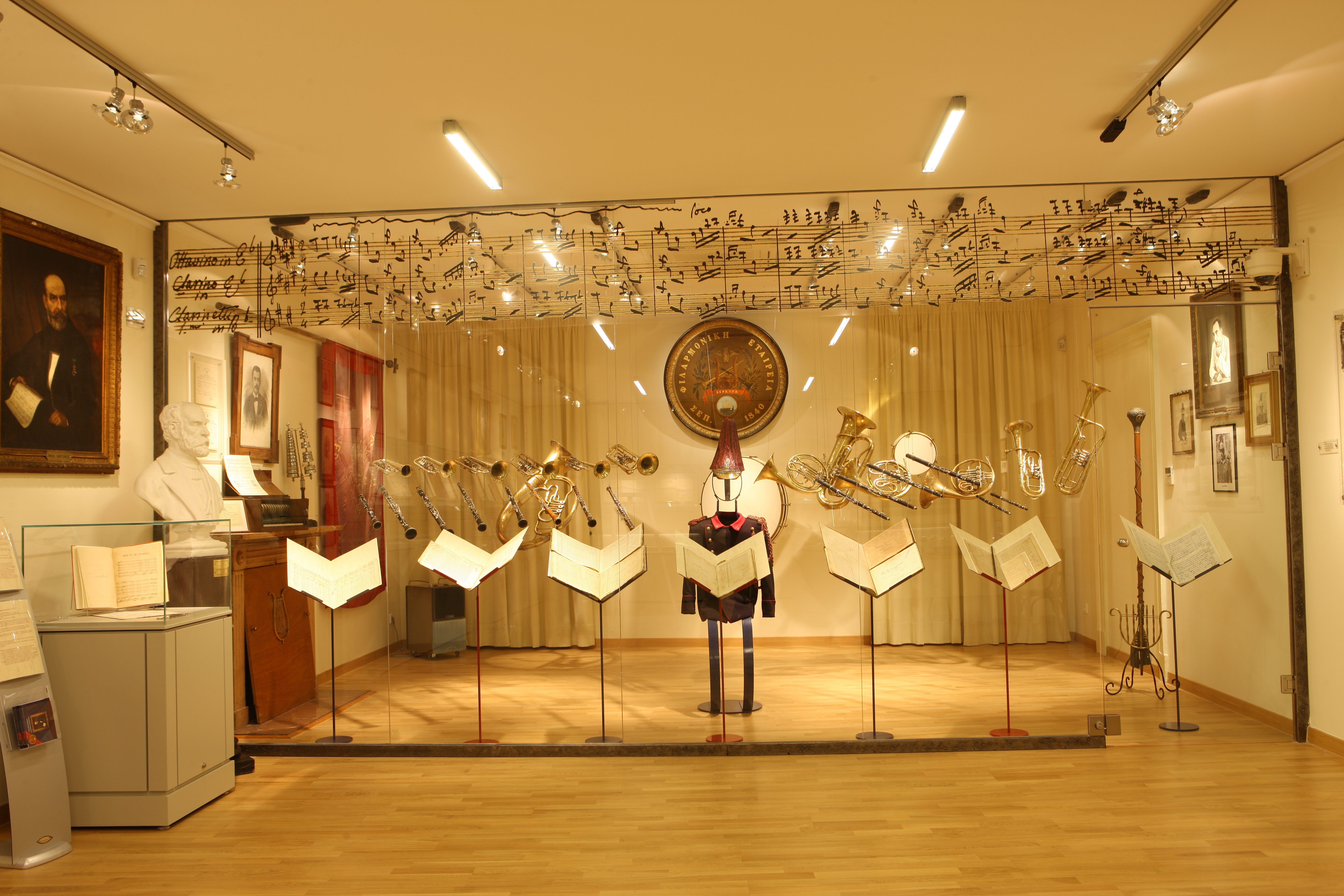 Section IV of the Music Museum of the Corfu Philharmonic Society